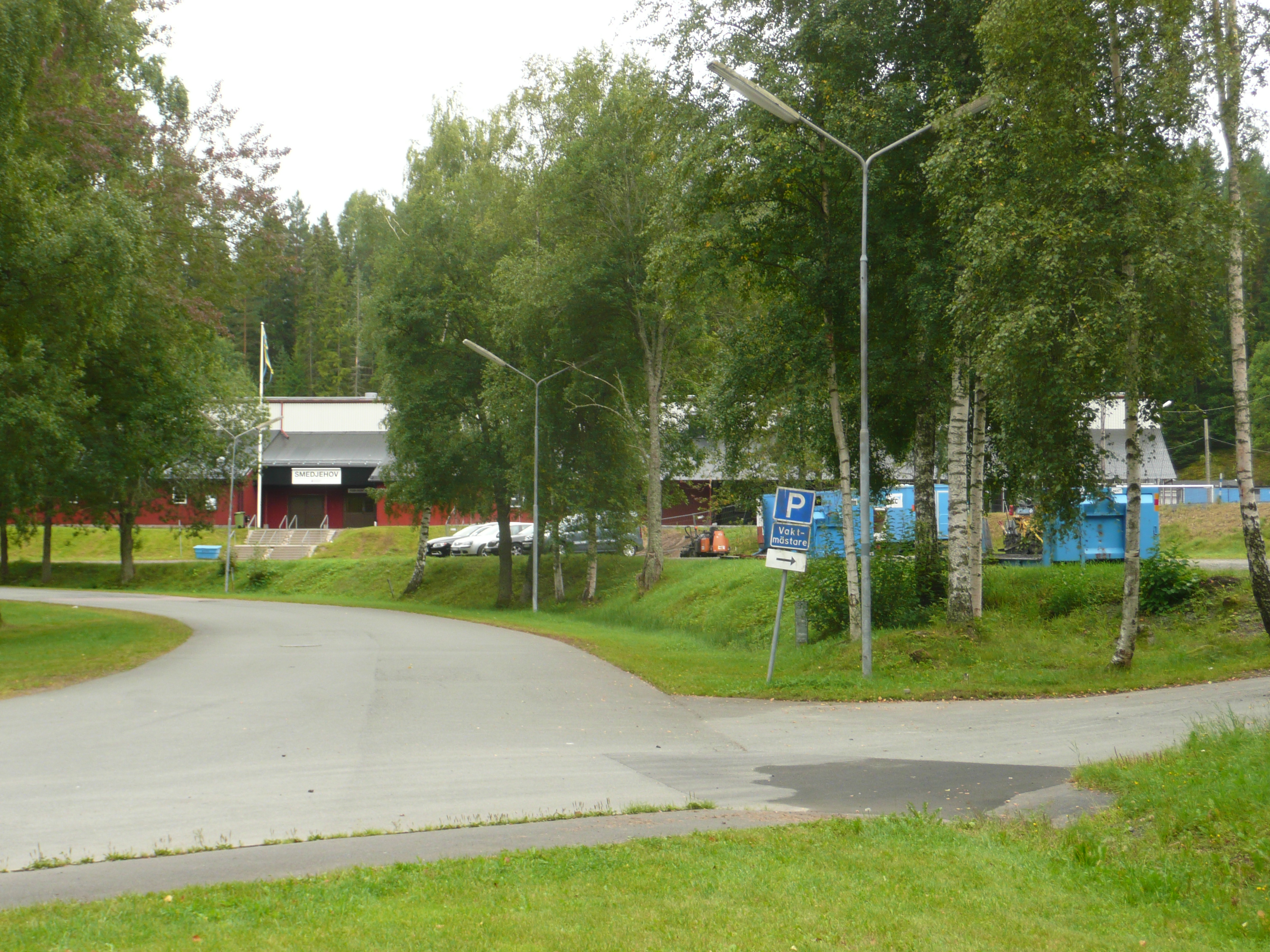 Hockey hall Smedjehov in Norrahammar, Sweden